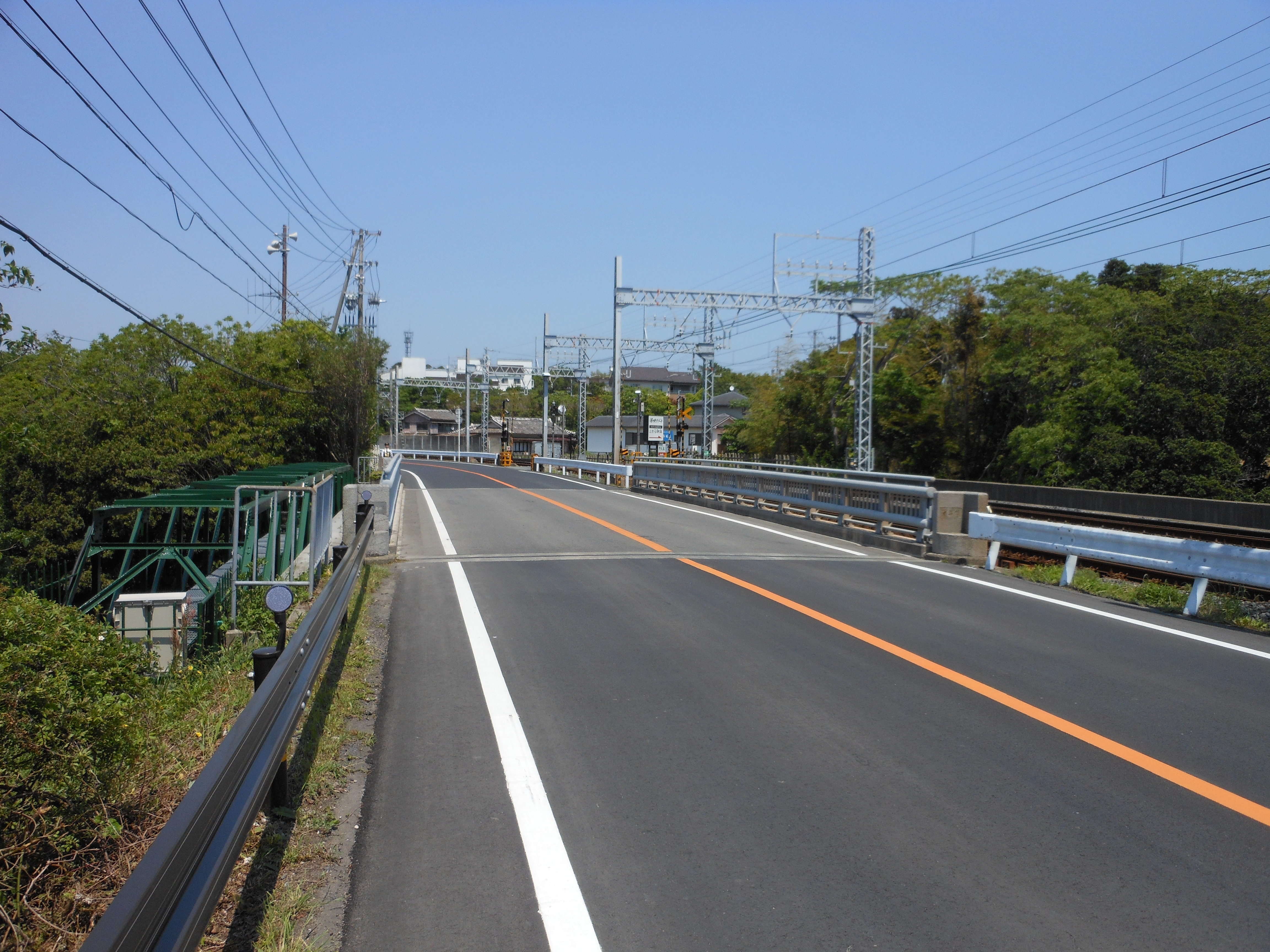 This is Kashikojima Bridge in Kashikojima, Shima, Mie, Japan.